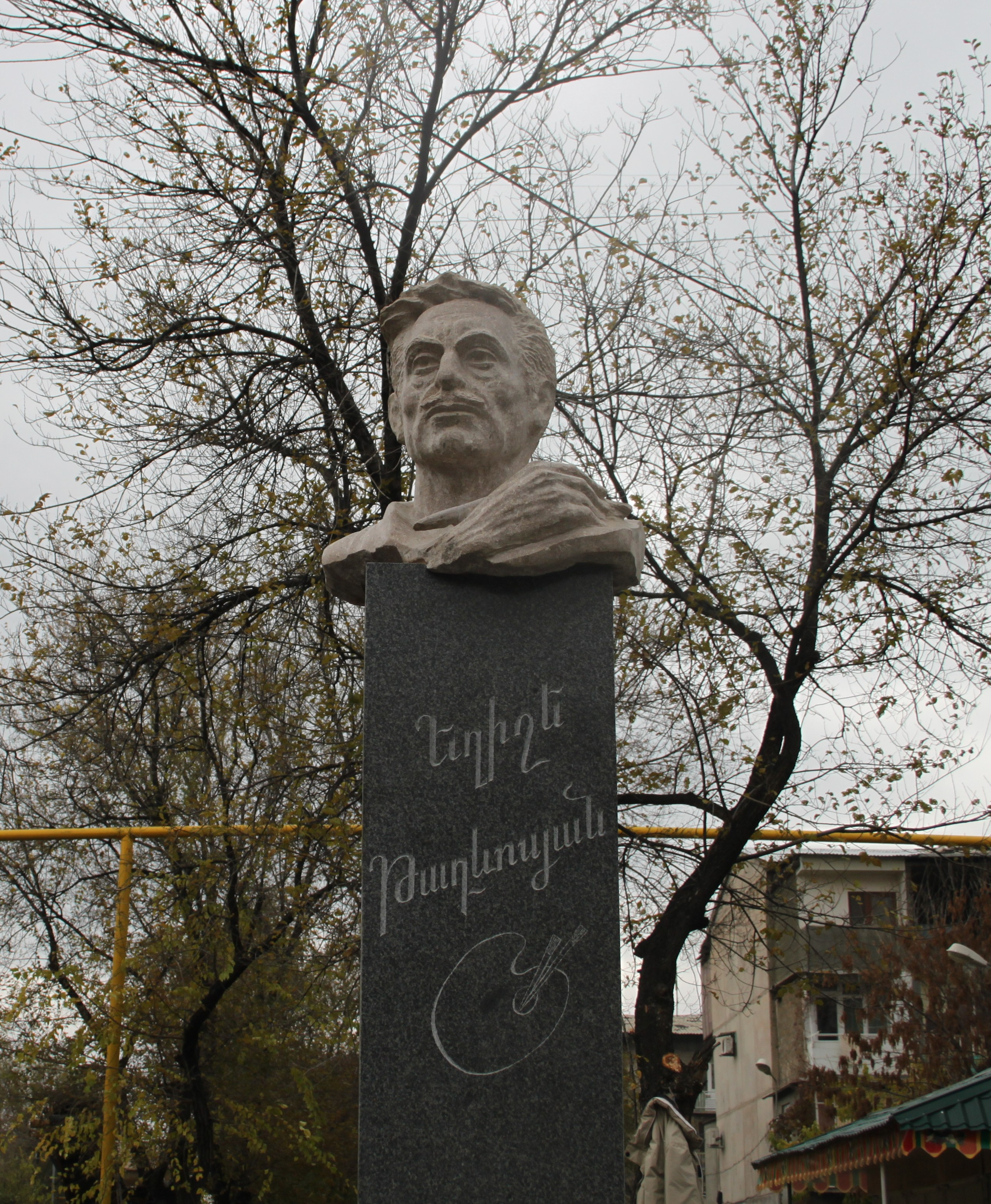 Yeghishe Tadeosyan bust in Shengavit district of Yereavn, 2015